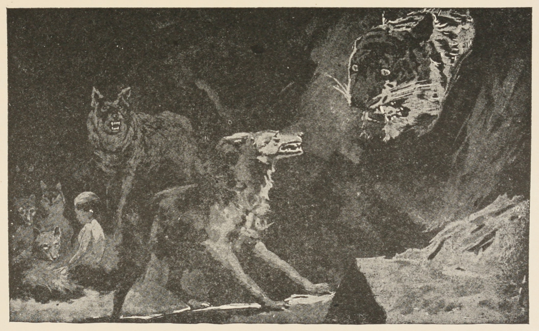 "The Tiger's roar filled the cave with thunder."